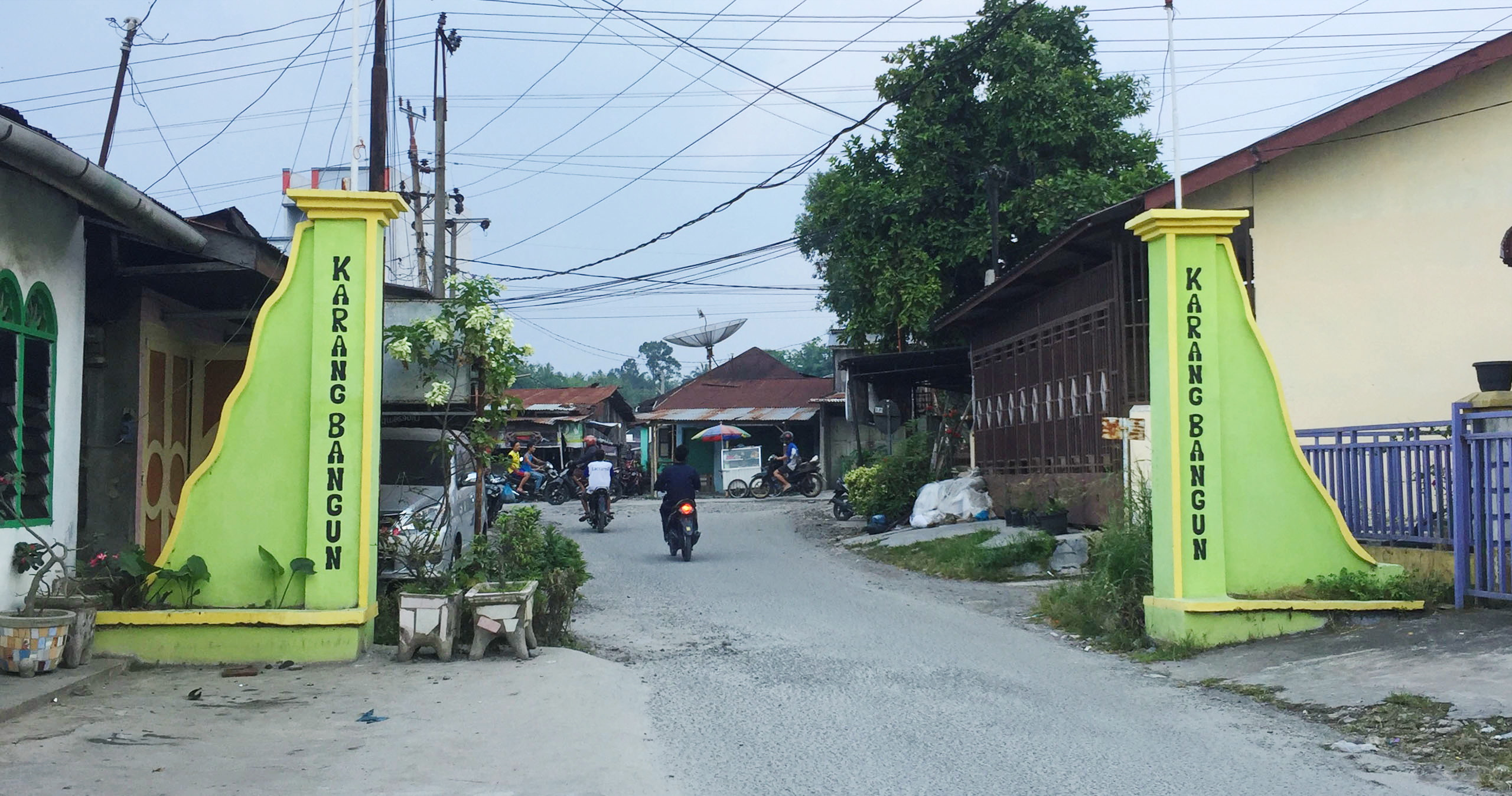 welcome gate to Karang Bangun, Siantar, Simalungun